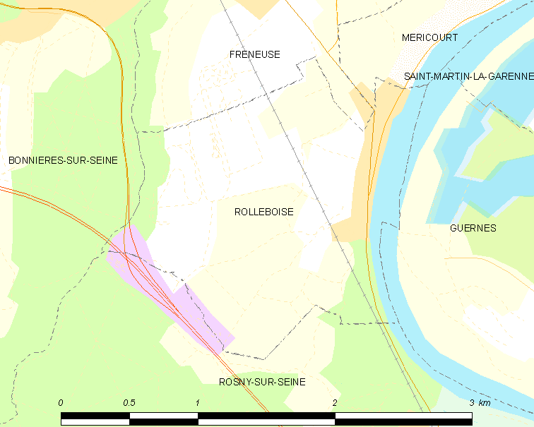 Map of French municipality Rolleboise